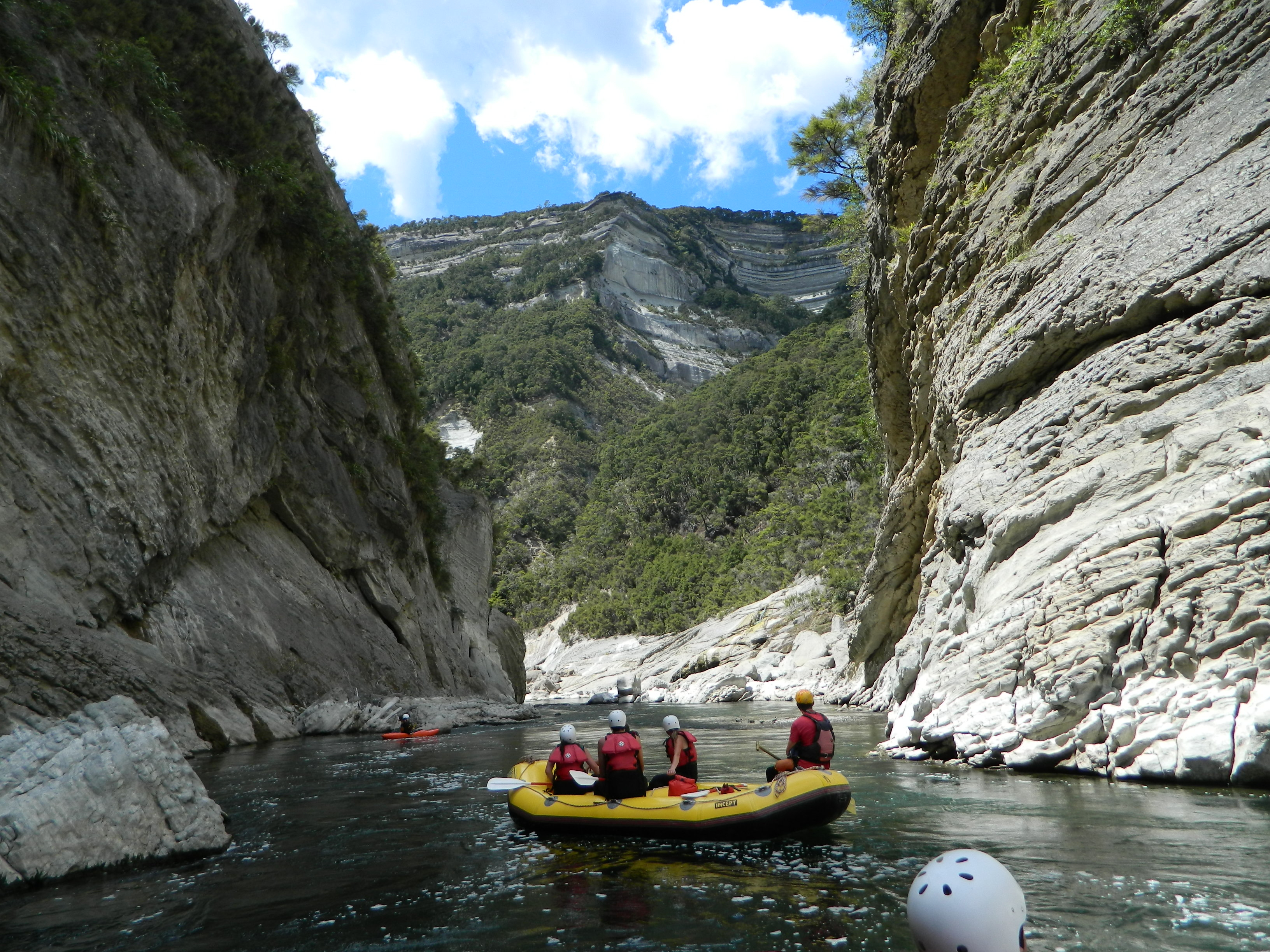 One of the canyons along the Mohaka Grade 5 section above Willow Flat